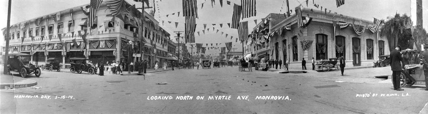 "Monrovia Day". Monrovia, California, May 16, 1914. Myrtle Avenue, looking north.